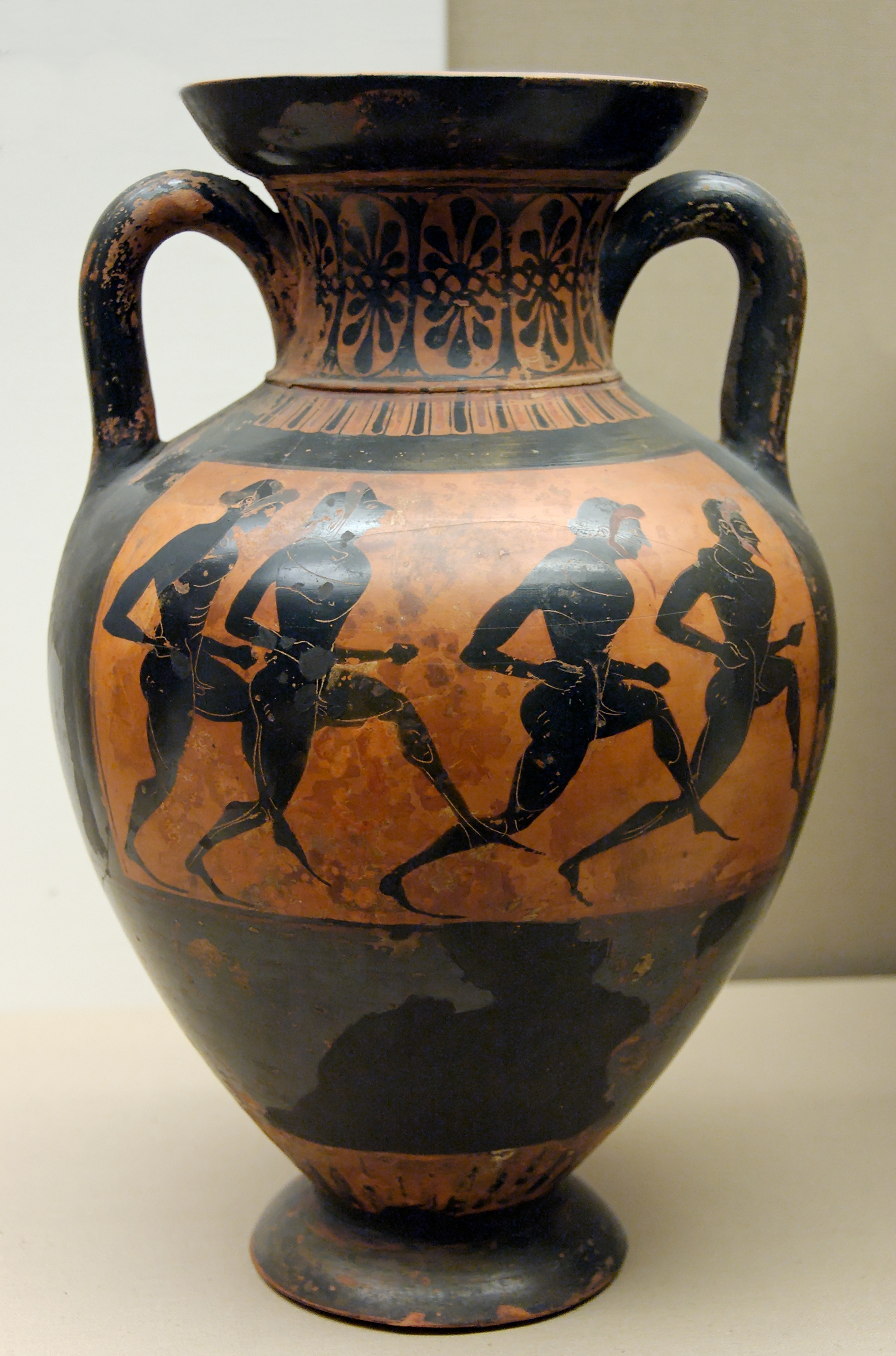 Side B: foot-race with four runners. Side A with Athena to left between two columns surmounted by cocks, chiton reaching below the knees and shield with device of snake to left. From Southern Italy or Sicily.